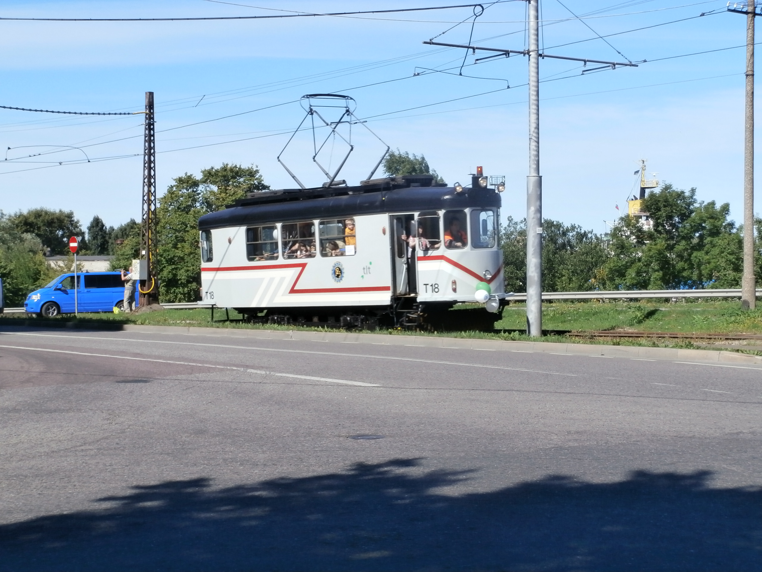 Tram T18 Sitsi Tallinn 24 August 2013 (in the background Ivan Bobrov Mast)